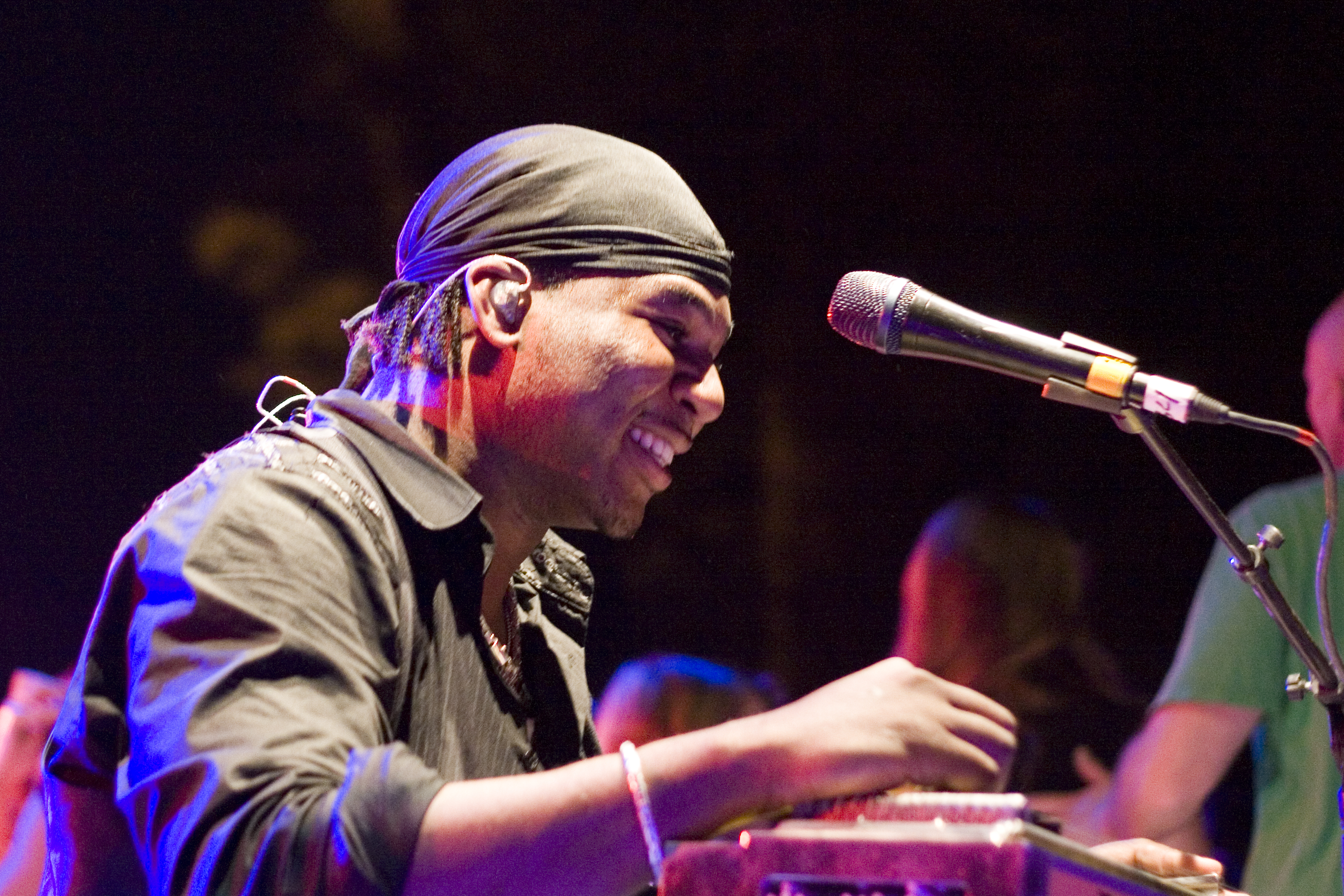 Musician Robert Randolph. Taken at Emory University by Nrbelex.